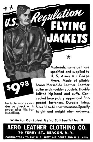 This is an image of an A-2 "bomber" jacket. According to it should be in the public domain as it was published in the US between 1923 and 1977 without a copyright notice. אמר Steve Caruso (poll) 19:48, 25 June 2006 (UTC)